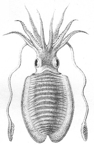 Sepia officinalis - animal